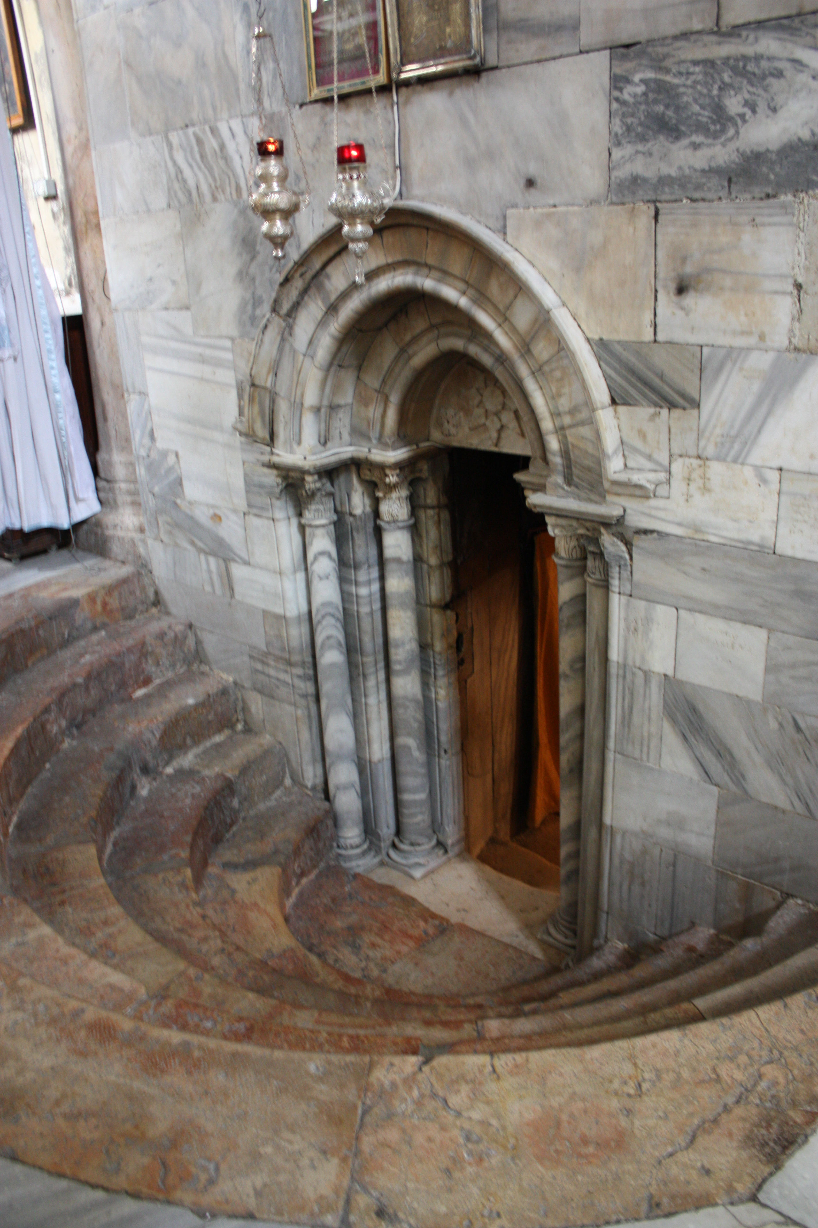 Exit from the Grotto of the Nativity.